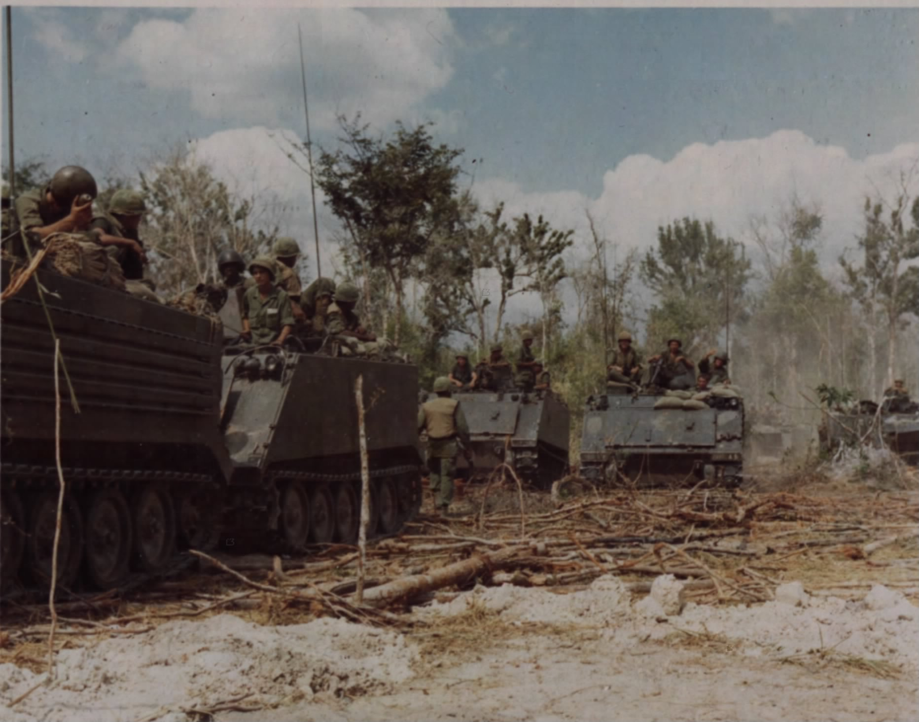 OPERATION YELLOWSTONE. M-113 Armored Personnel Carriers from Company "A", 3rd Battalion, 22nd Infantry (Mechanized), 25th Infantry Division, passes a burnt out area as they travel to a new camp site.